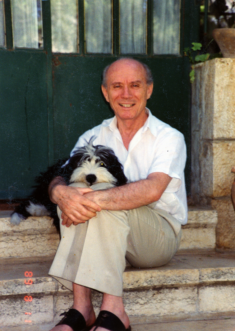 Gary Bertini, Israelian conductor and composer